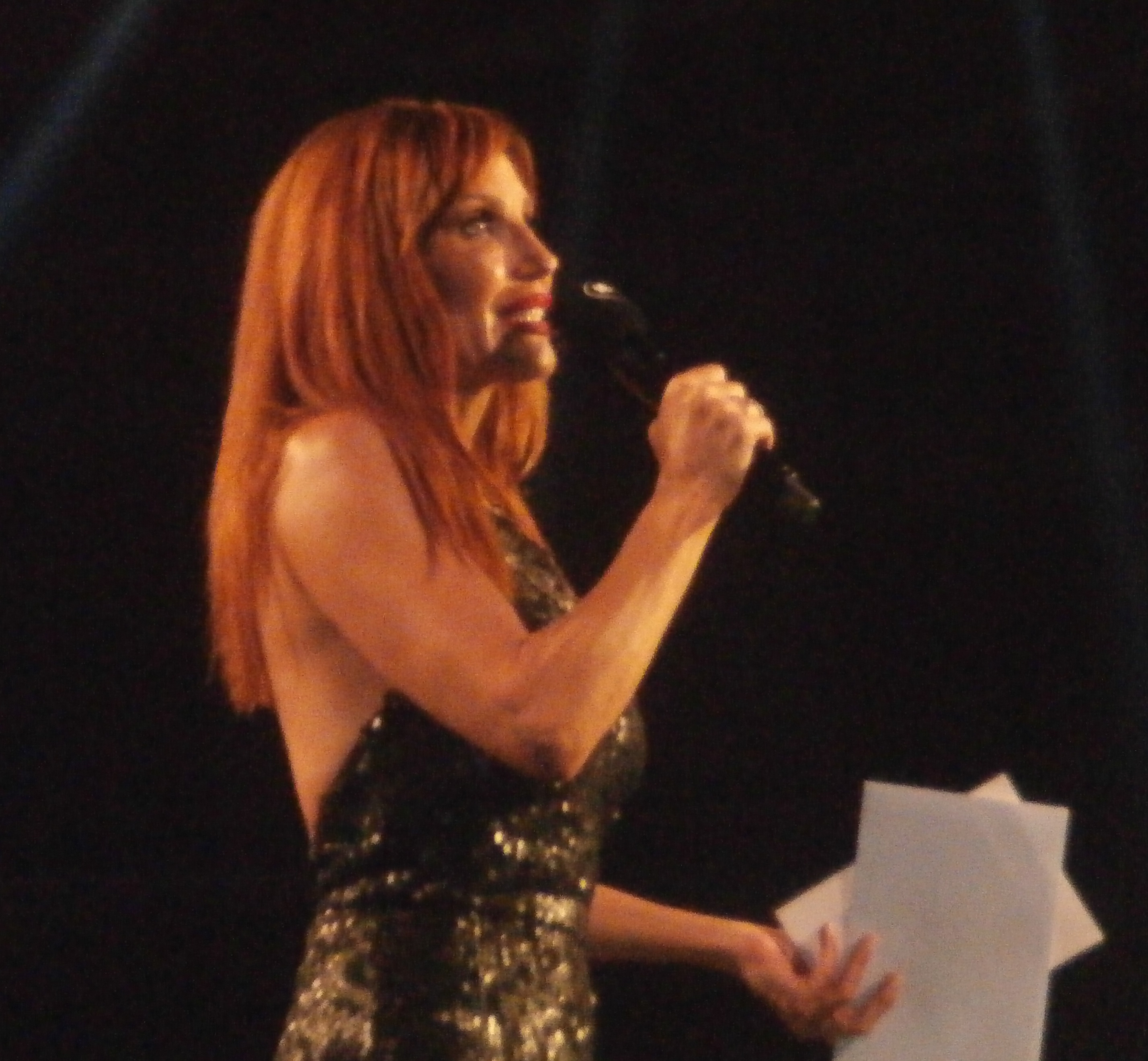 Vicky Hadjivassiliou at MAD Video Music Awards 2017, ready to announce the video with a cause award.